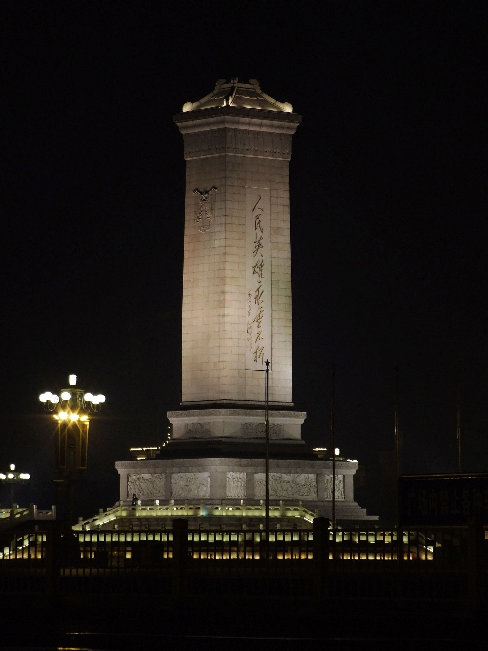 Monument to the People's Heroes